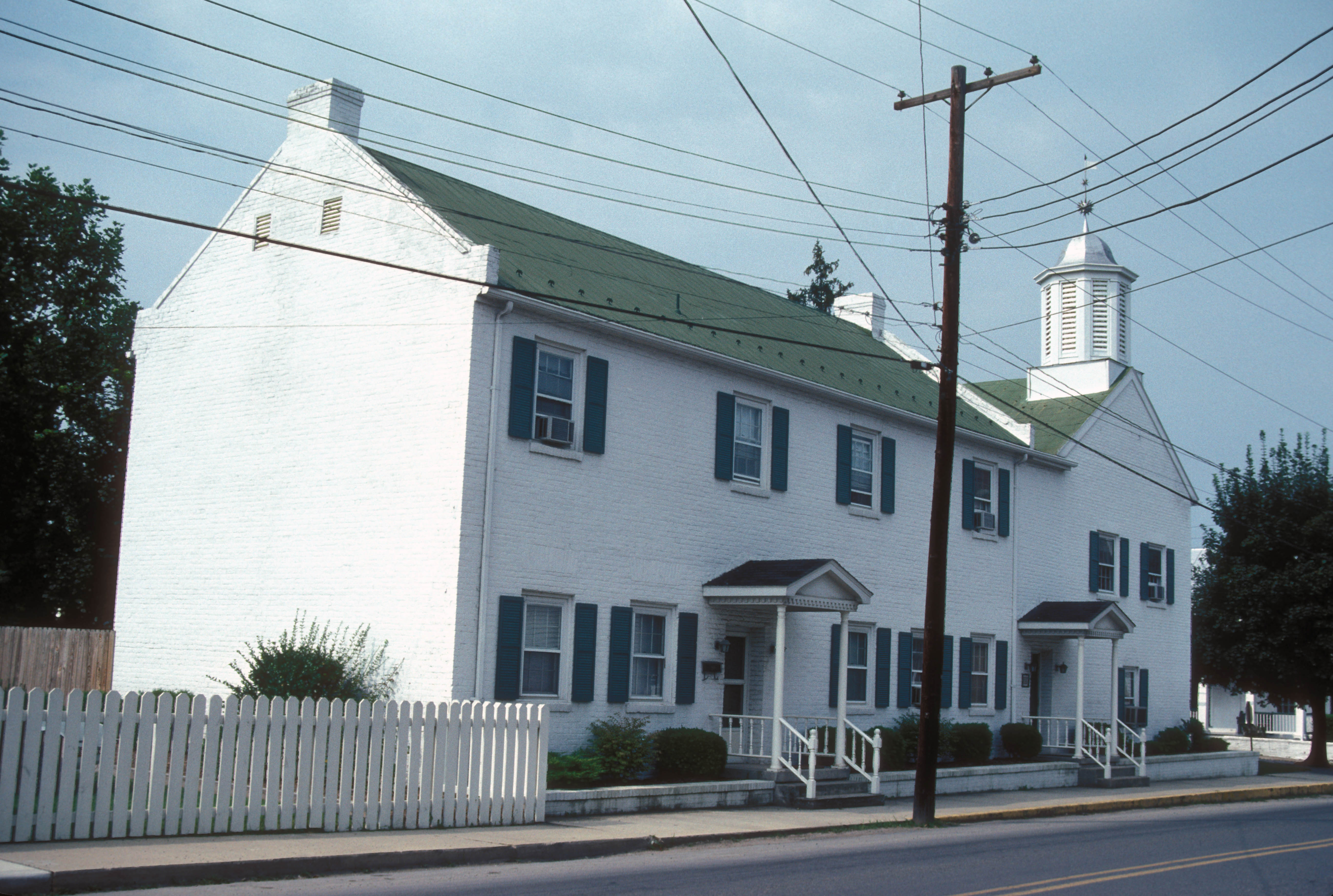 1792-1793; BRICK FEDERAL NOW USED AS AN OFFICE